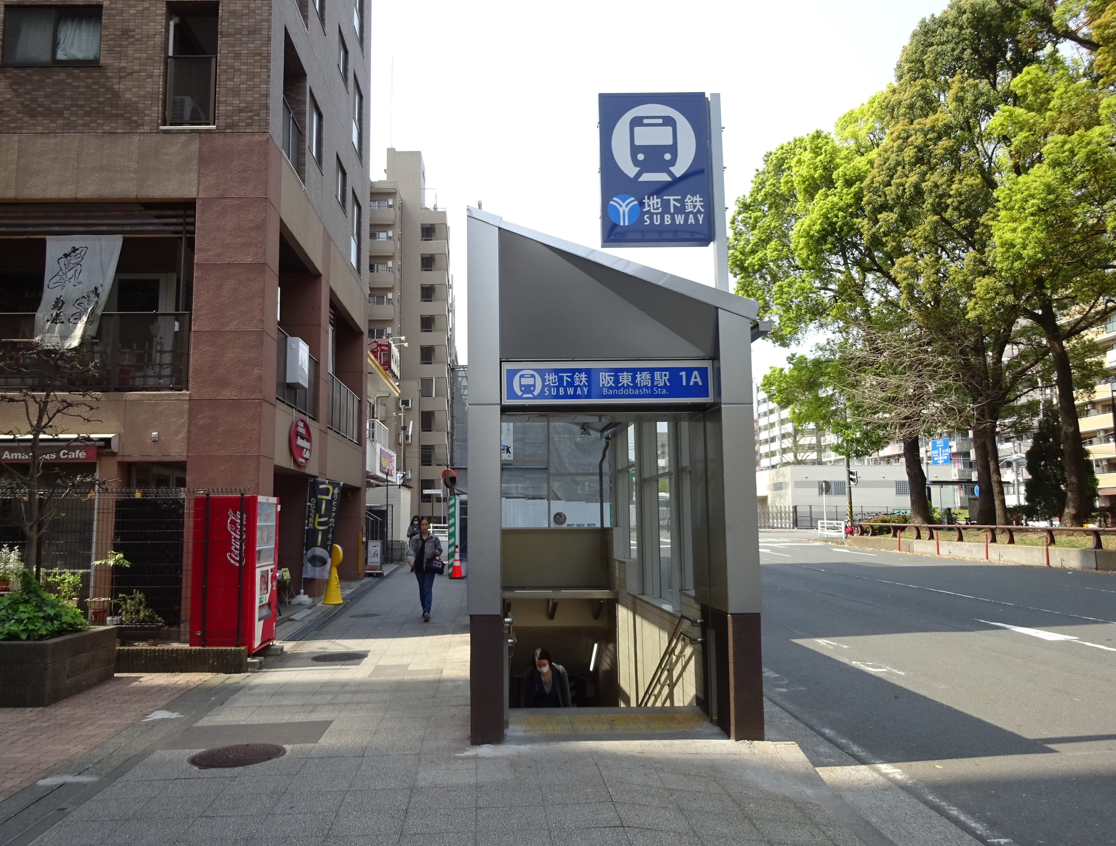 Bandōbashi Station Exit No. 1